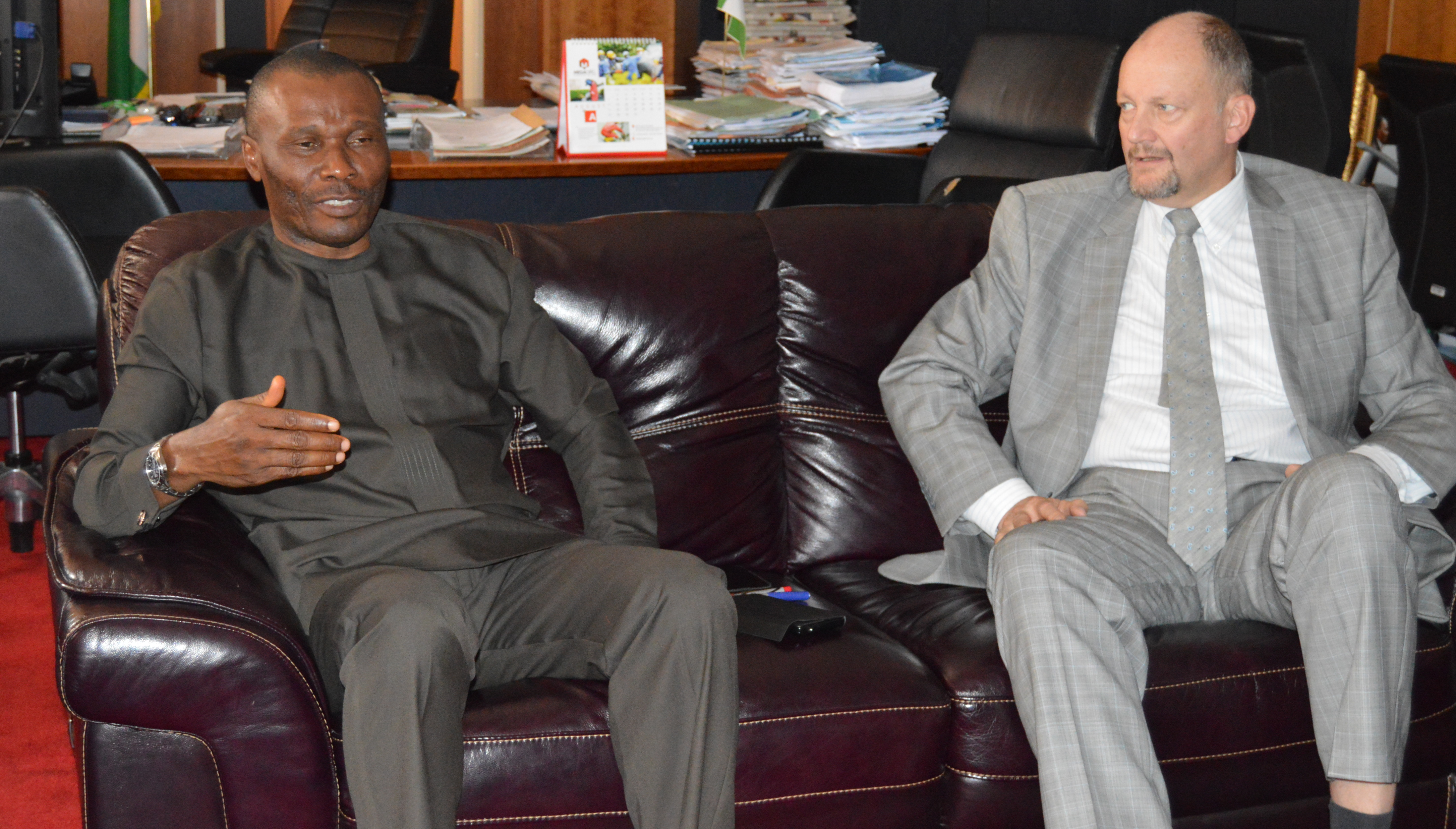 Usani Uguru Usani sharing Niger Delta issues with Michel Arron, Head of the European Union Delegation to Nigeria and the ECOWAS.